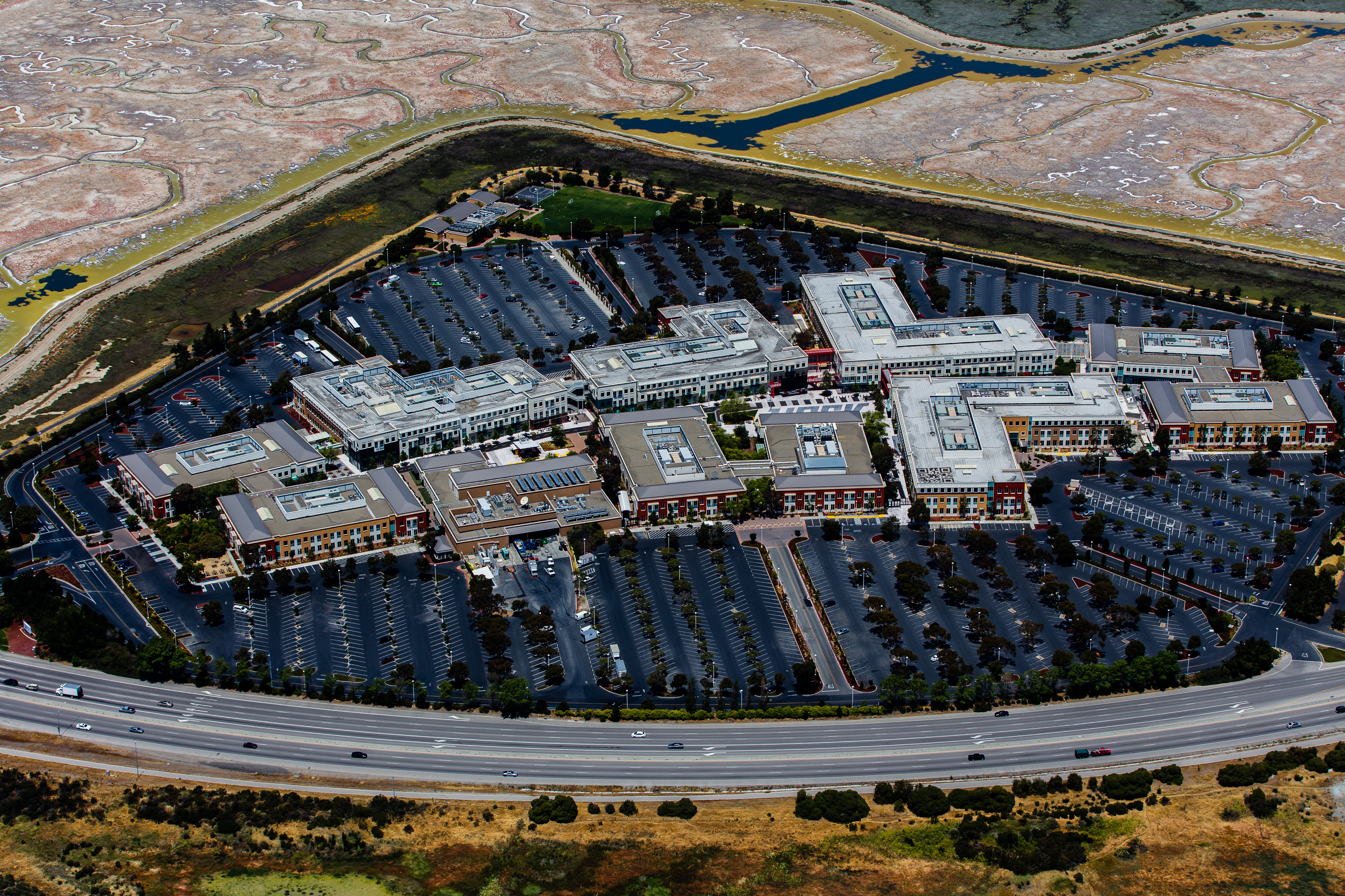 An aerial view of the Menlo Park offices of Facebook, Inc